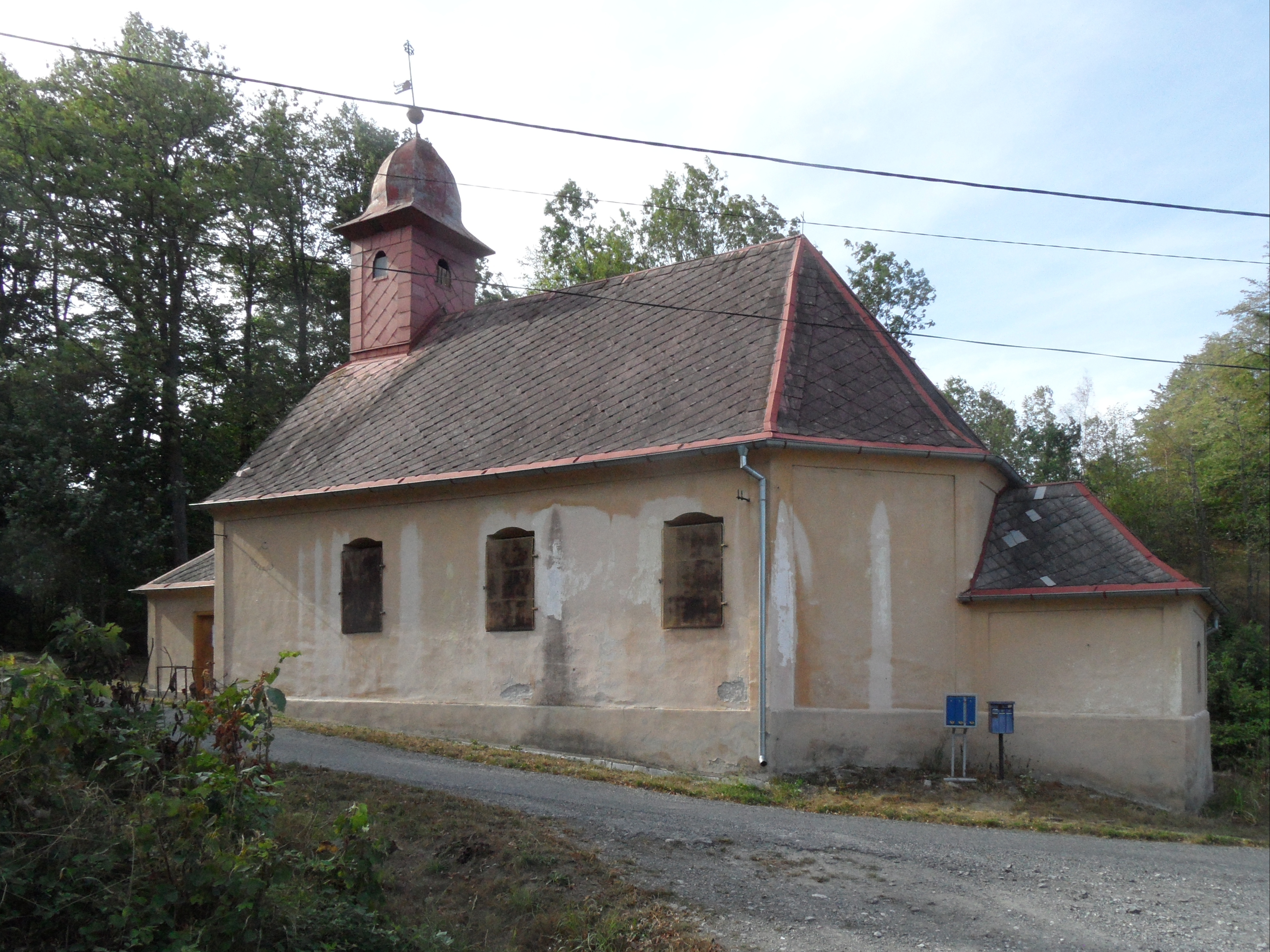 Horní Hoštice A. Church of Saint John of Nepomuk / of Saint John Sarkander. View from East-South-East. Jeseník District, the Czech Republic.